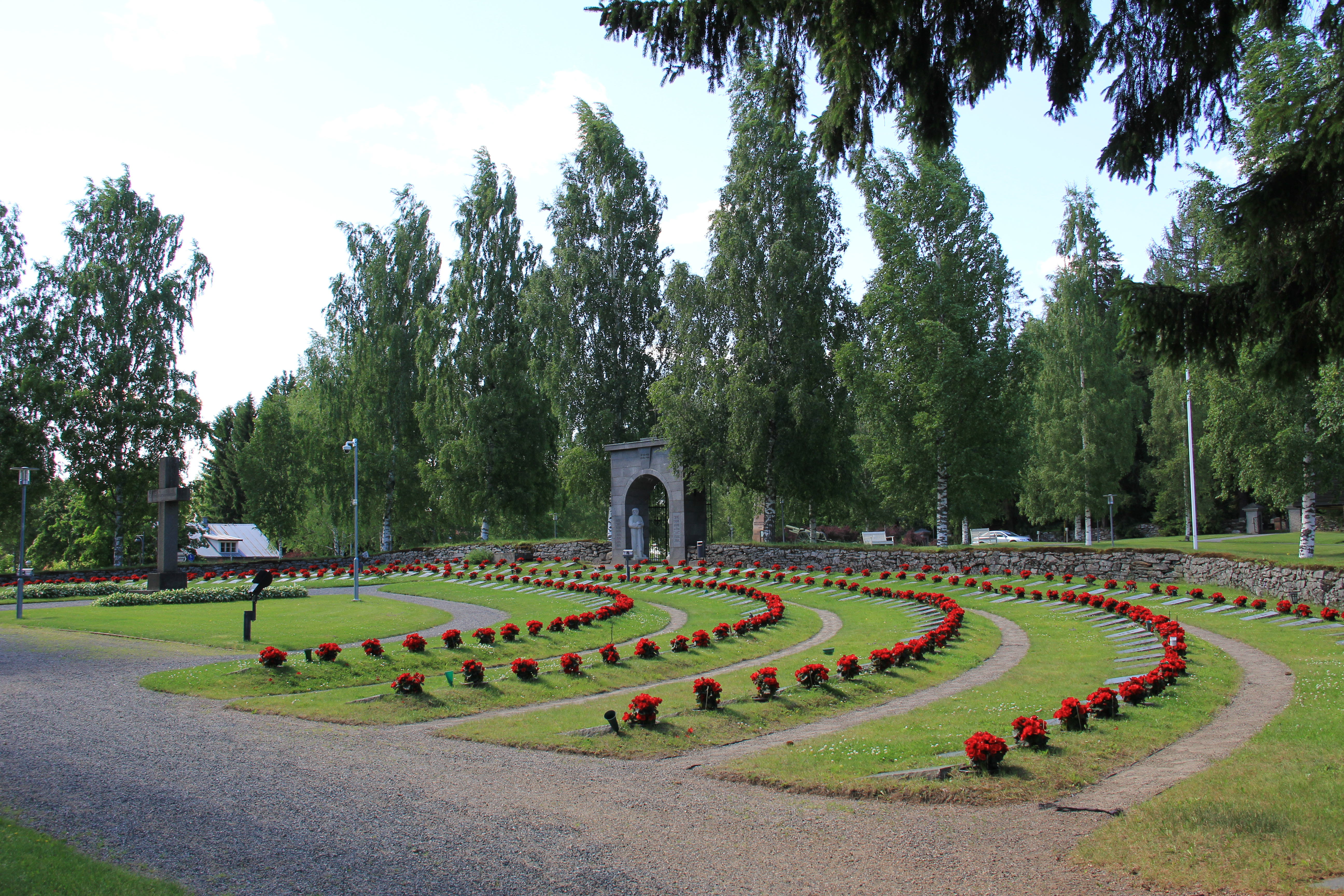 Juva military cemetery, Juva, Finland. - Memorial designed by Ilmari Wirkkala, statues by Tapio Wikkala.